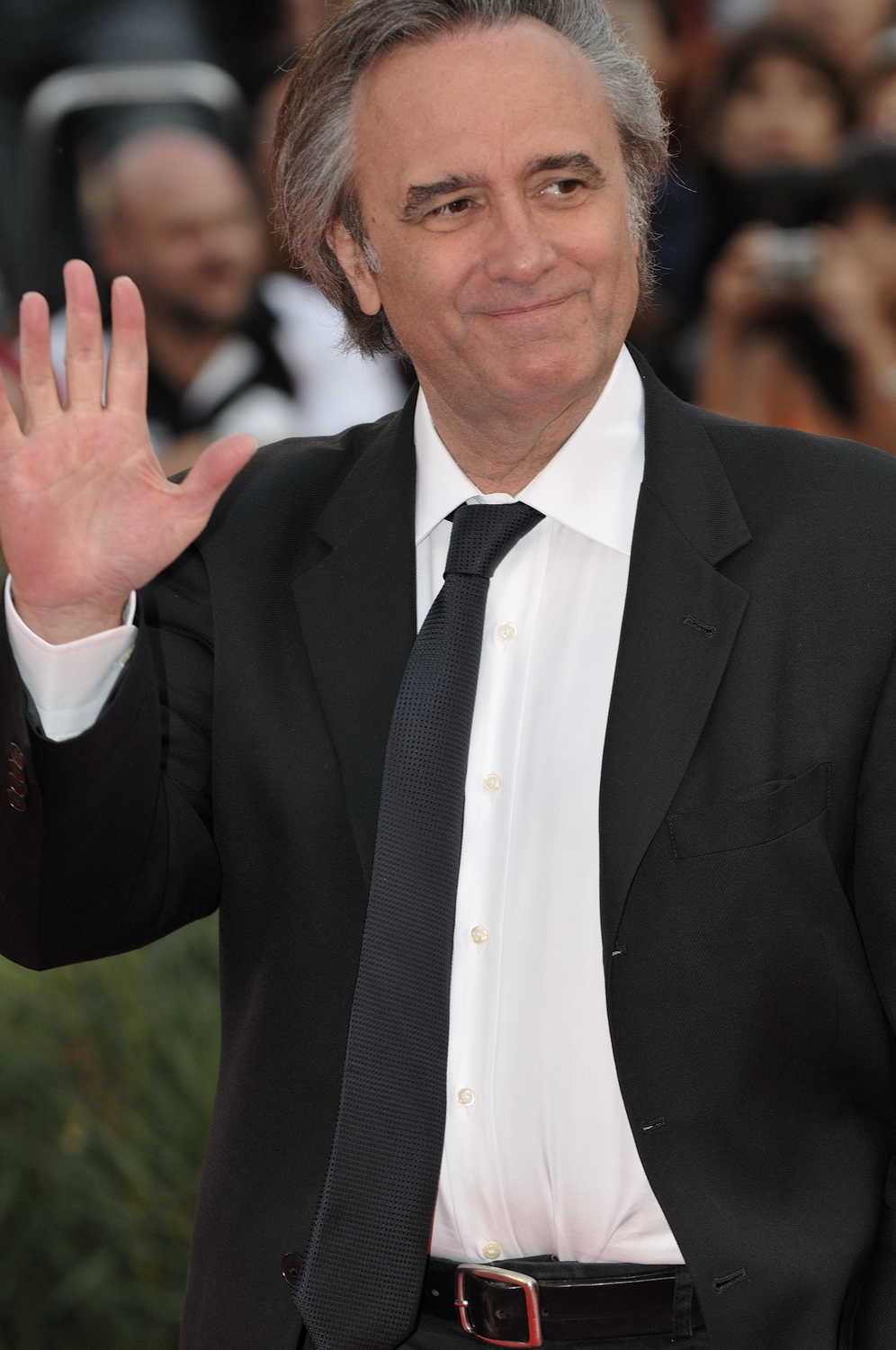 American director Joe Dante, member of the jury for the 66th Venice Film Festival in 2009.